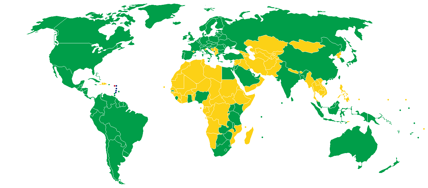 Visa policy of Saint Kitts and Nevis Saint Kitts and Nevis Freedom of movement Visa-free entry Electronic visa